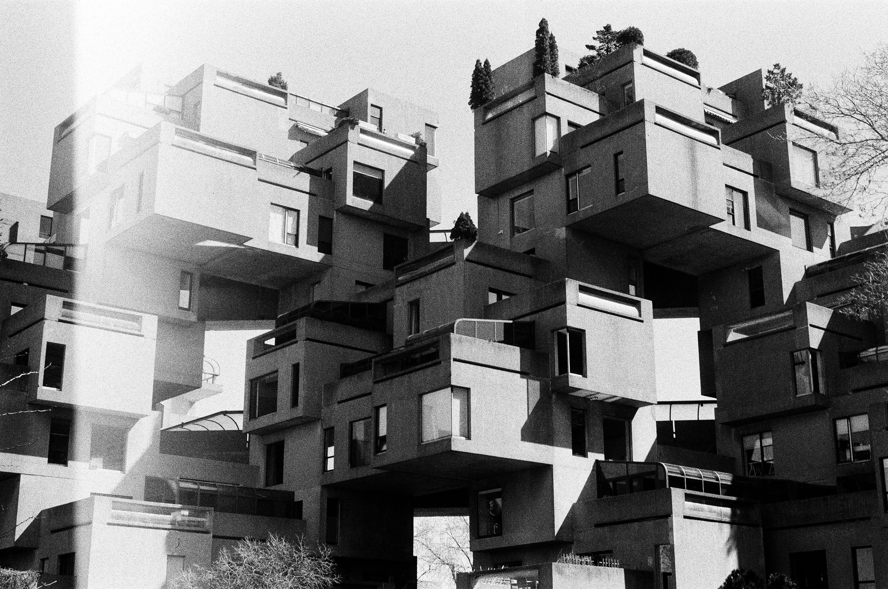 Damaged Photograph of Habitat 67. Habitat, is a model community and housing complex in Montreal, Canada, designed by Israeli/Canadian architect Moshe Safdie. Black and white analog photograph with light leak. Vintage film photography.